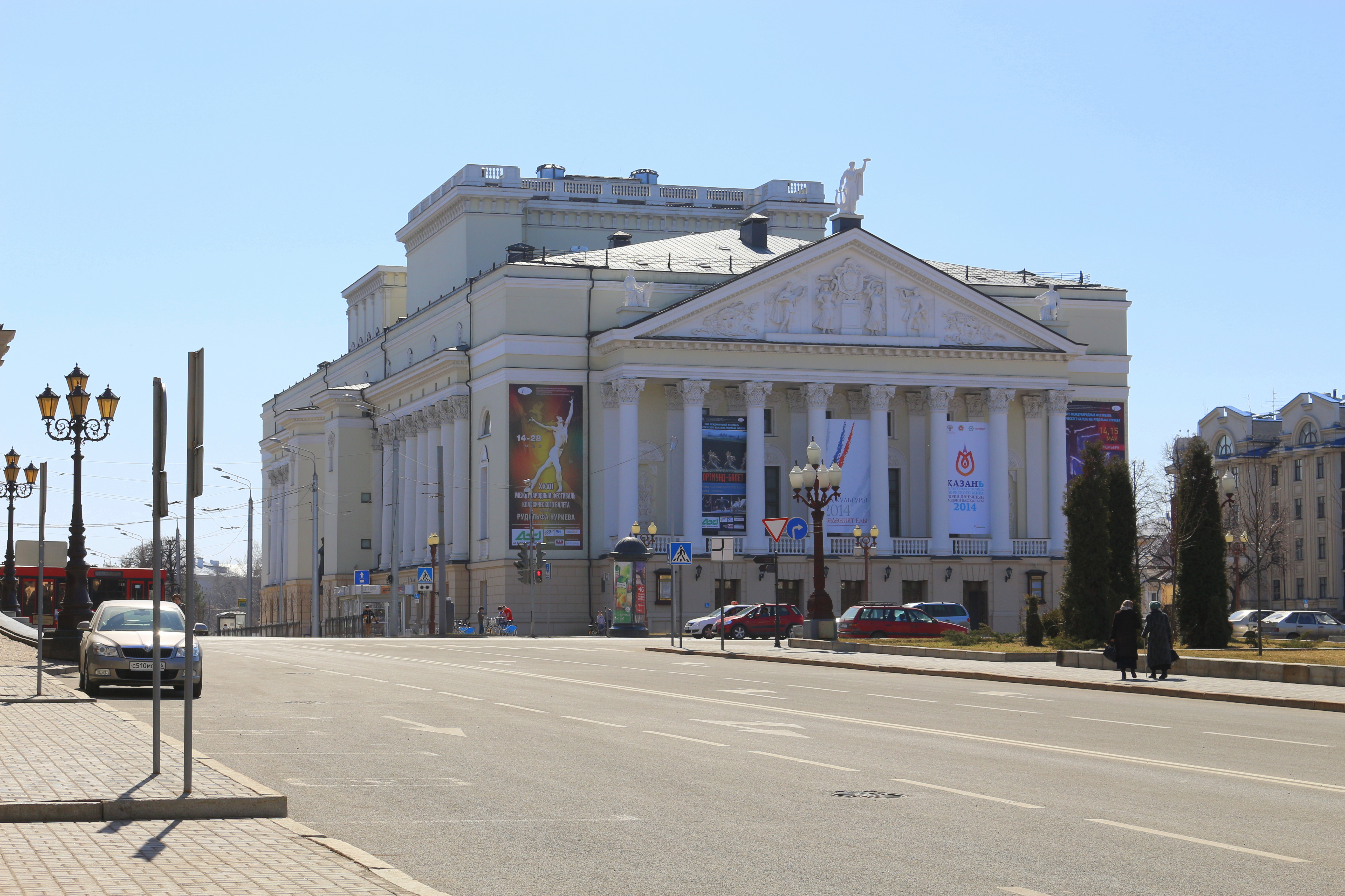 opera and ballet thetre